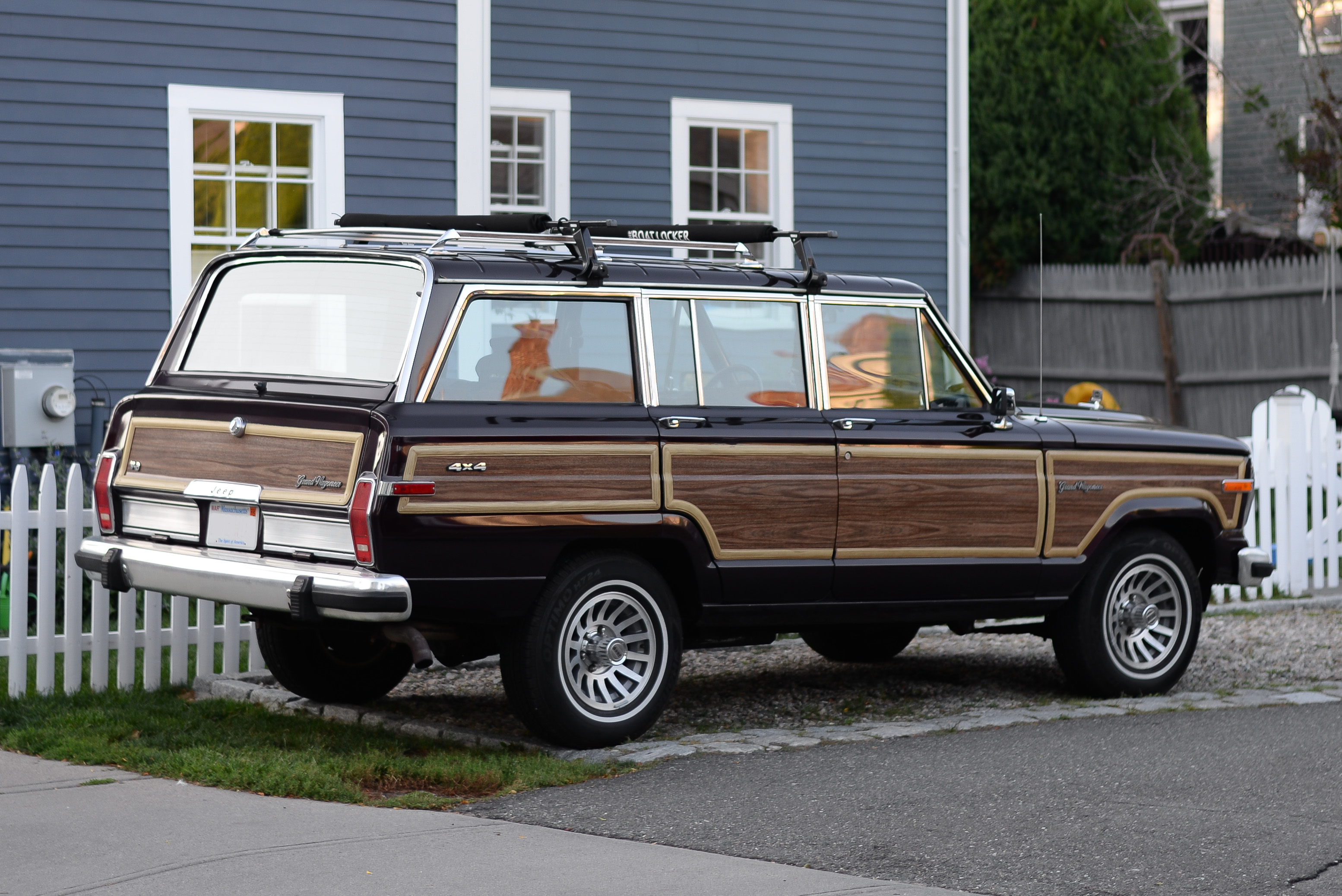 A Jeep Grand Wagoneer in good condition seen in Massachusetts